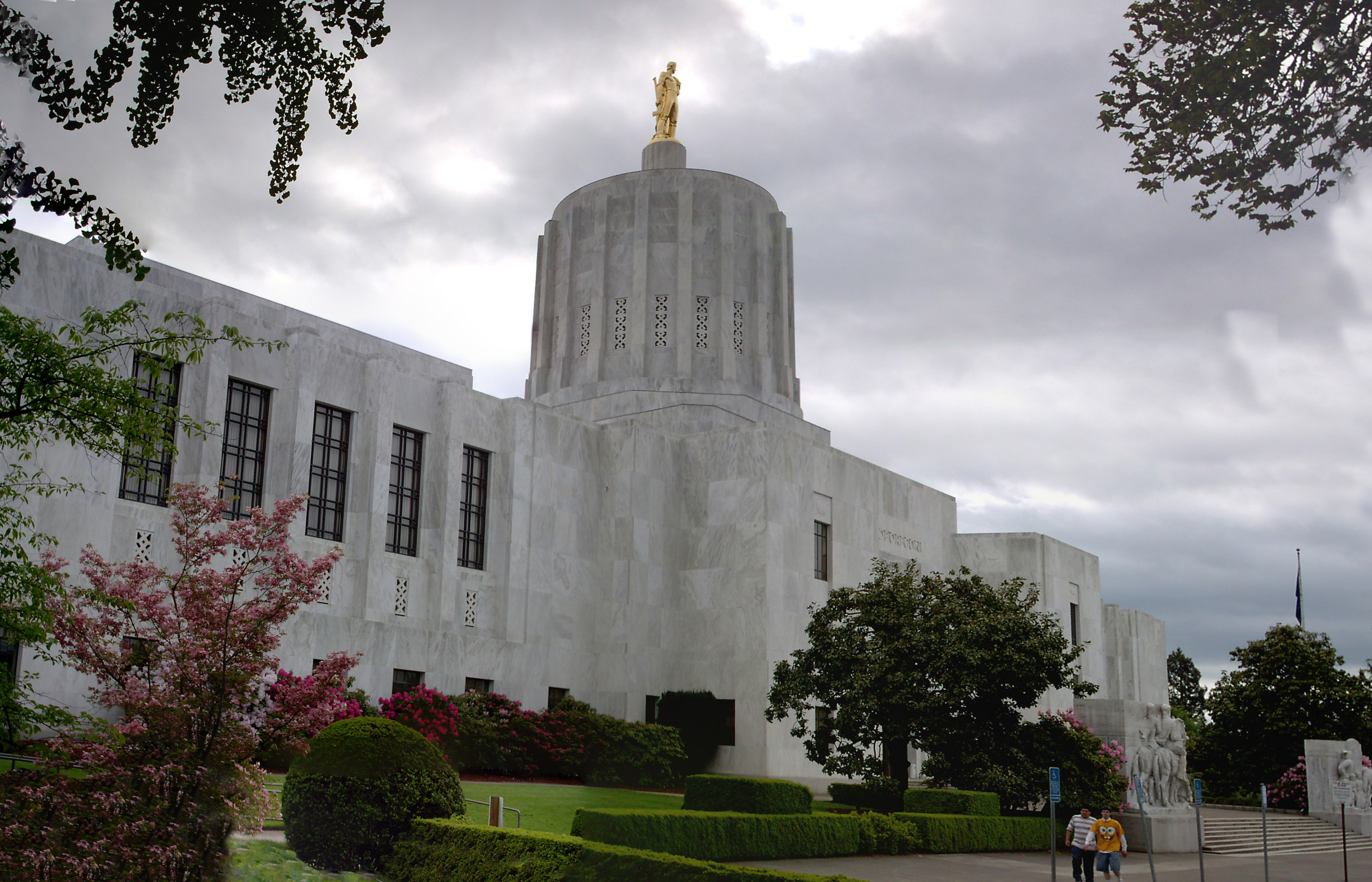 A composite image of the Oregon State Capitol Building, taken by a ViviCam 3705 and composited in Photoshop CS3 using the PhotoMerge script.